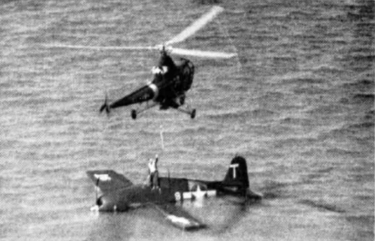 A U.S. Naval Air Reserve Sikorsky HO3S rescueing the pilot of a Grumman F6F-5 Hellcat fighter from the NAS Seattle Air Reserve (tail code "T").